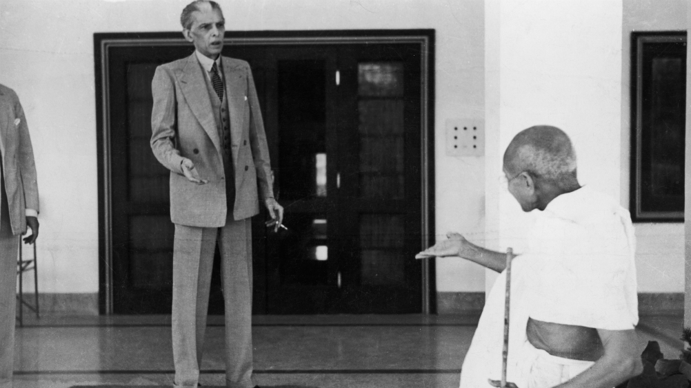 It depicts a difference of opinion between Gandhi and Jinnah. Bombay, 1944.